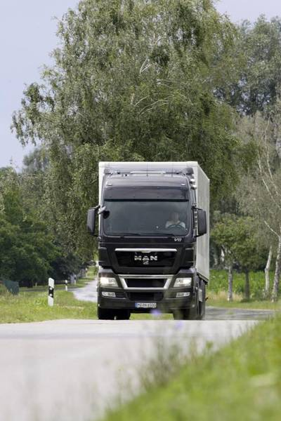 MAN TGX truck.